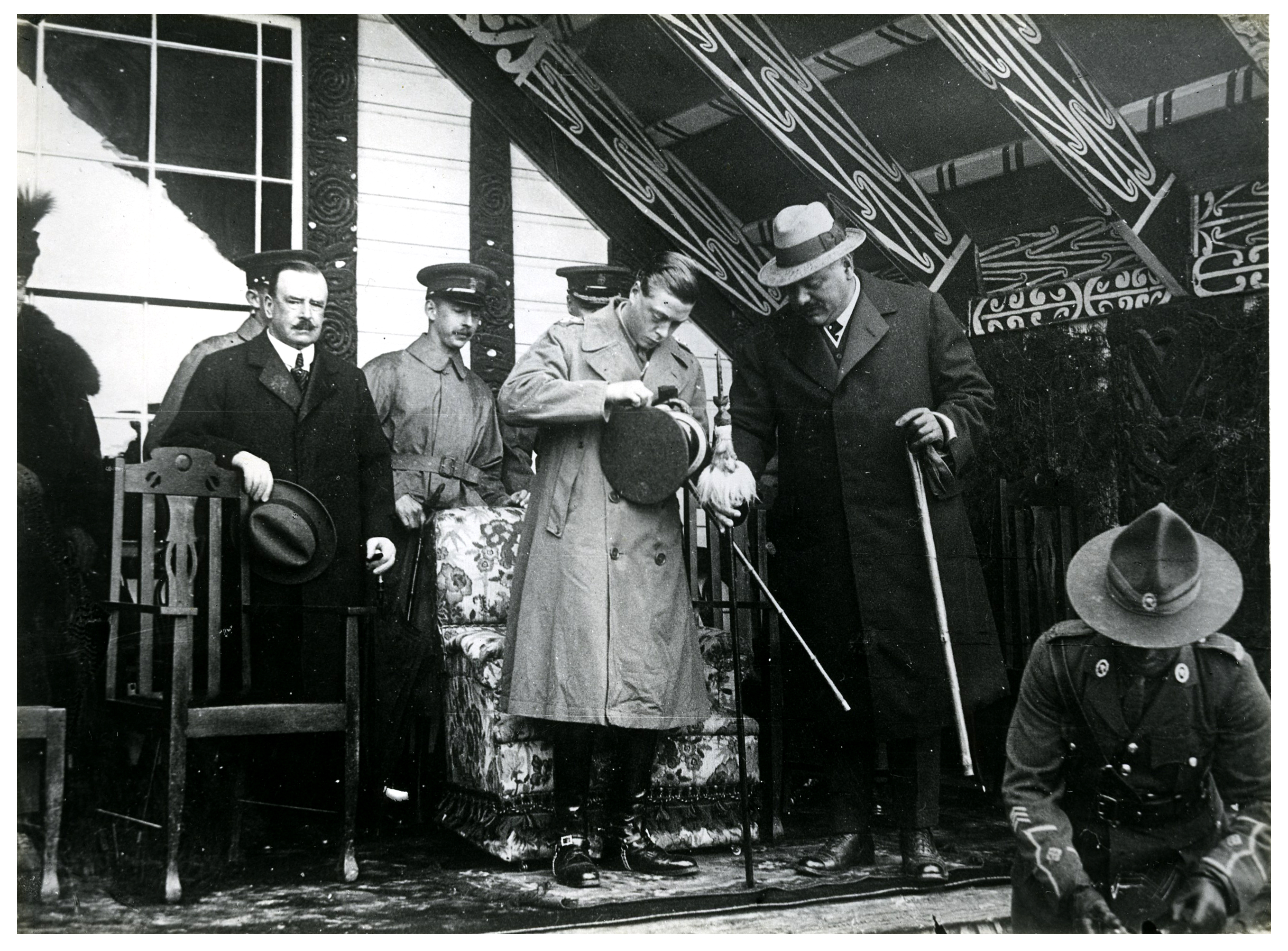 This photograph is of the 1920 Royal Tour of King George V’s son, Edward, Prince of Wales, who was in New Zealand between 24 April and 22 May. It shows the Prince after receiving a gift of Huia feathers in Rotorua. Joseph Ward is on the left, and Maui Pomare is to the right. Archives New Zealand Reference: ACGO 8363 IA31 Box 1/1